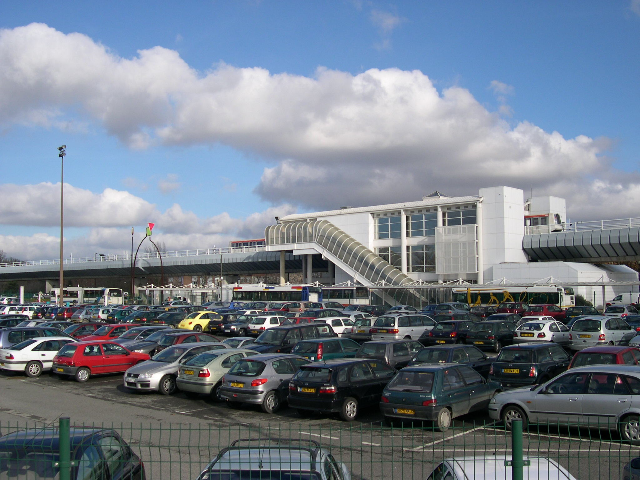 Subway station Basso-Cambo in Toulouse.